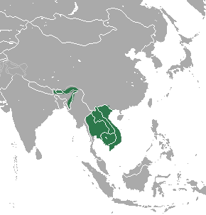 Ratanaworabhan's Fruit Bat (Megaerops niphanae) range